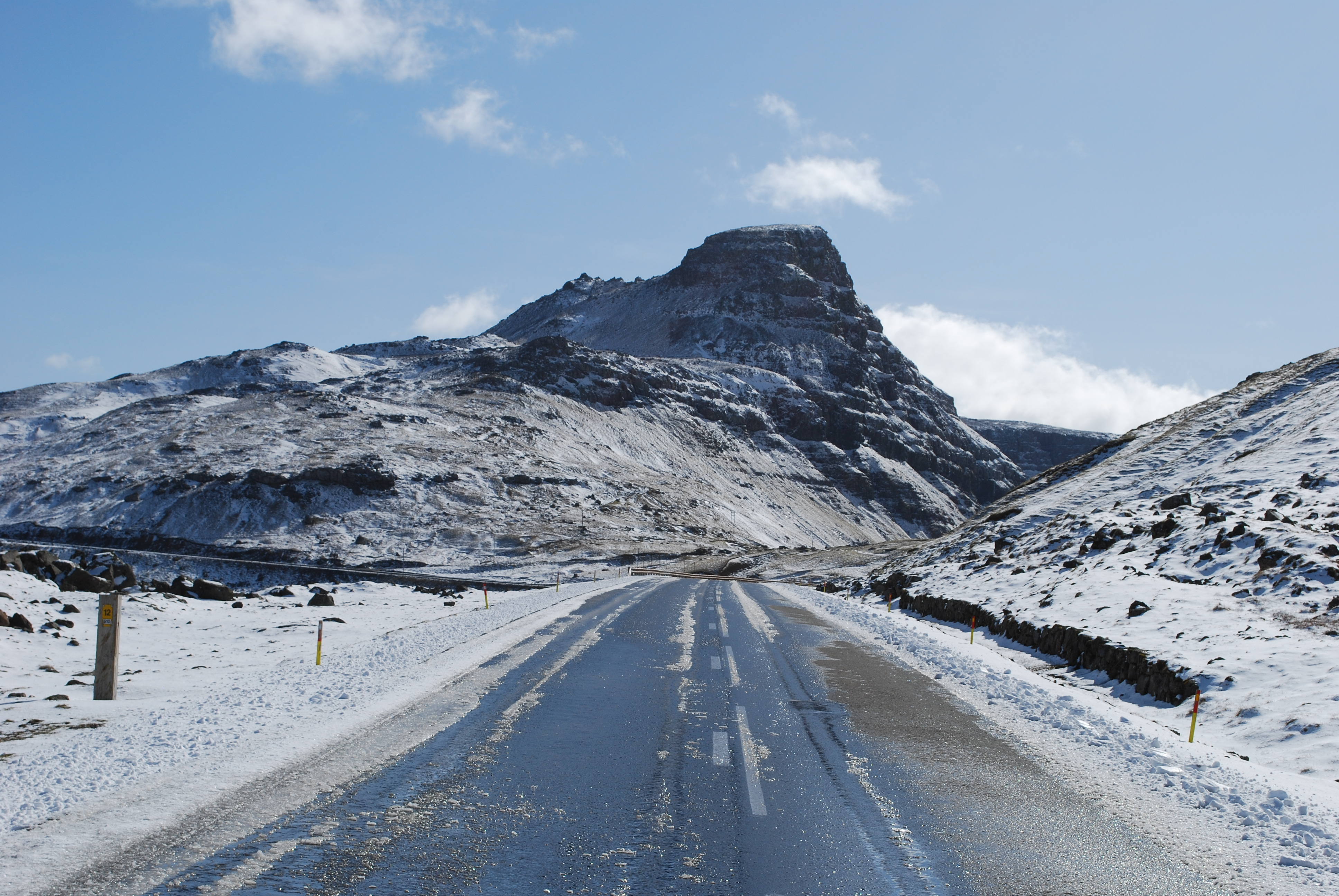 Oyggjarvegur, the od street between Tórshavn and Kollurfjørður, Streymoy, Faroe Islands